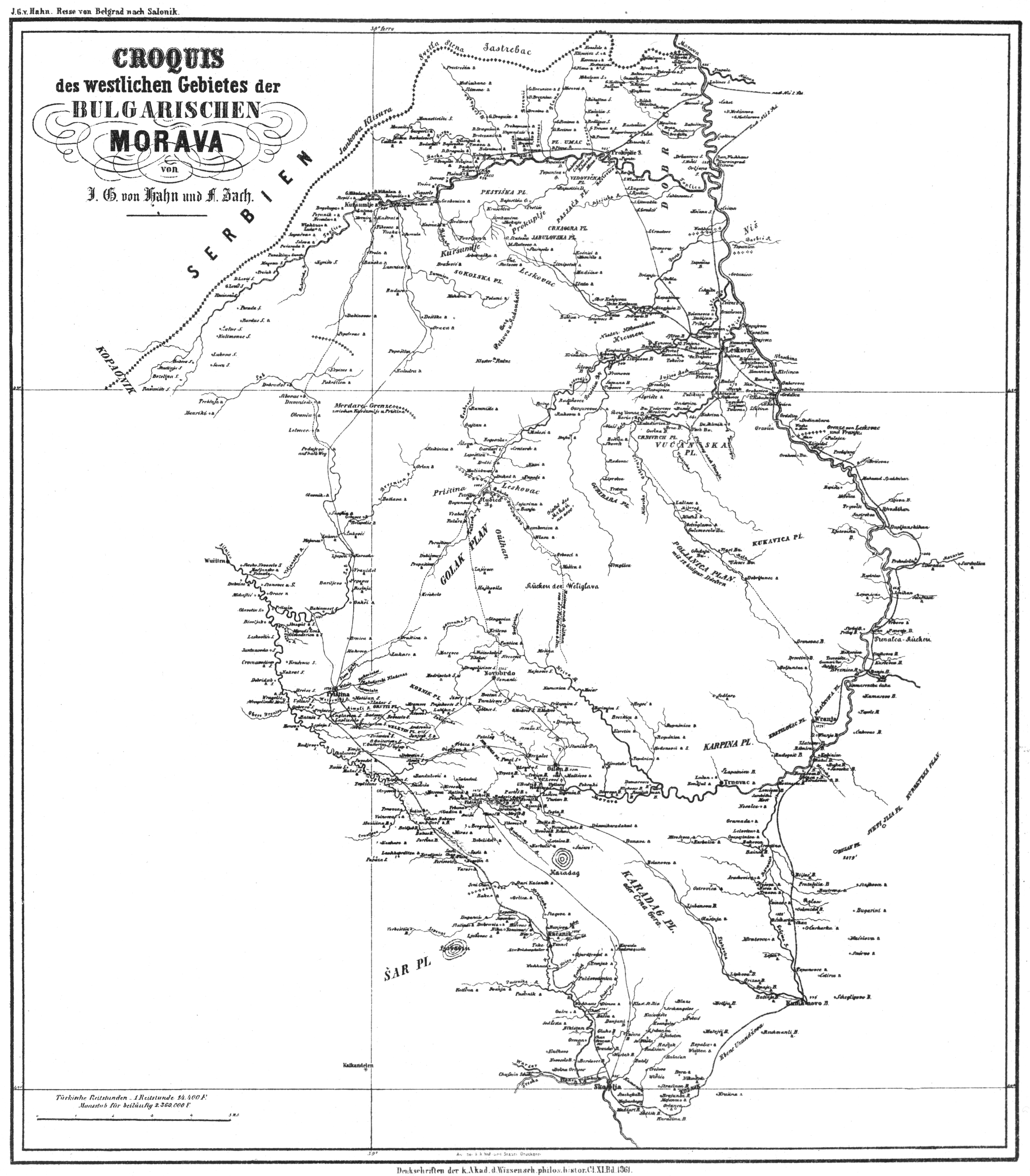 Ethnographic map of Bulgar Morava Valley (South Morava) by Johann Georg von Hahn. Letters a, b and s after the toponyms mean Albanian, Bulgarian, Serbian respectively.